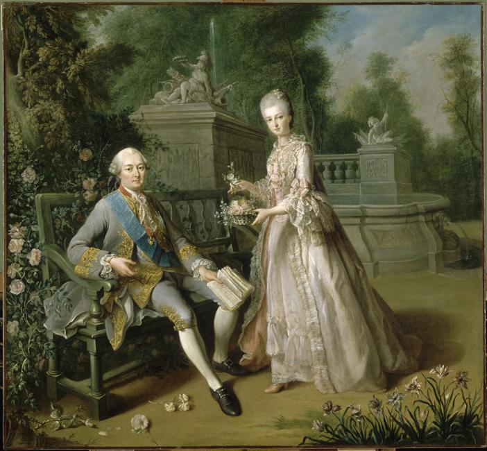 Louis Jean Marie de Bourbon with his daughter Louise Marie Adélaïde de Bourbon, wife of the future Philippe Égalité and Duchess of Orléans